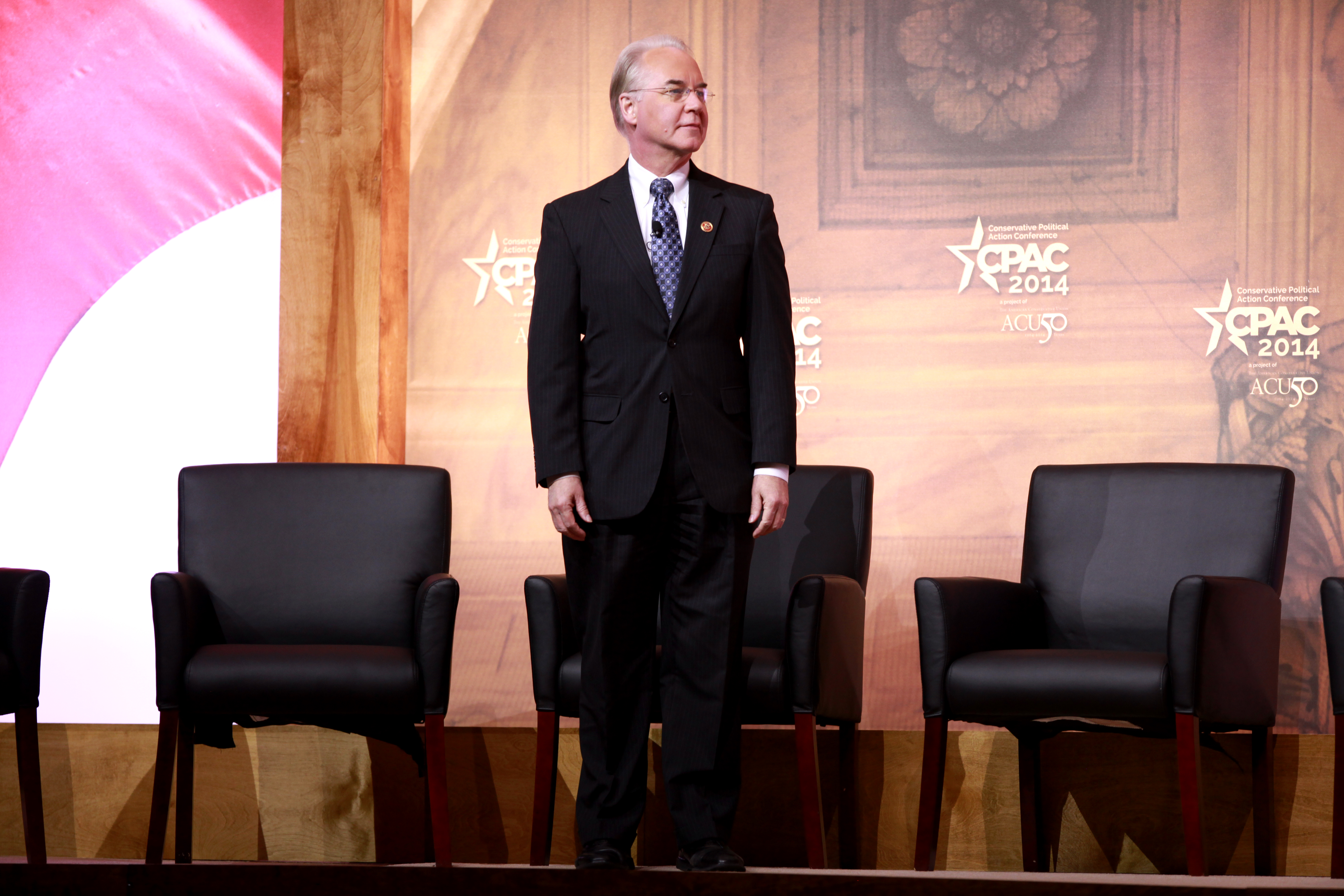 Tom Price speaking at CPAC 2014 in Washington, D.C.